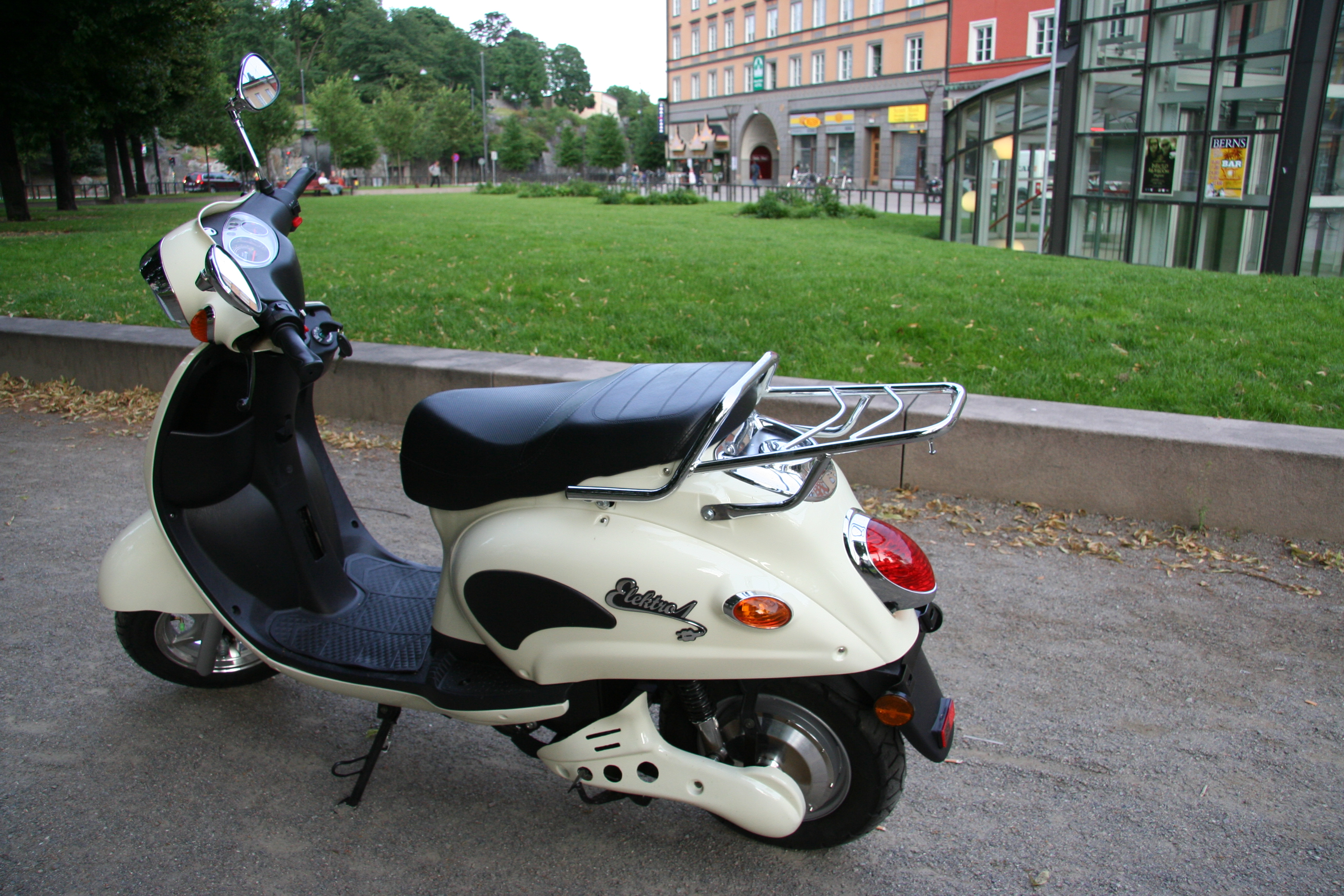 New Elektro1 model from features Japanese controller and engine (2,2kW), 80km range, integrated charger, disc brakes, galvanized frame, boost-button, a very sturdy chassis and 2 years warranty.